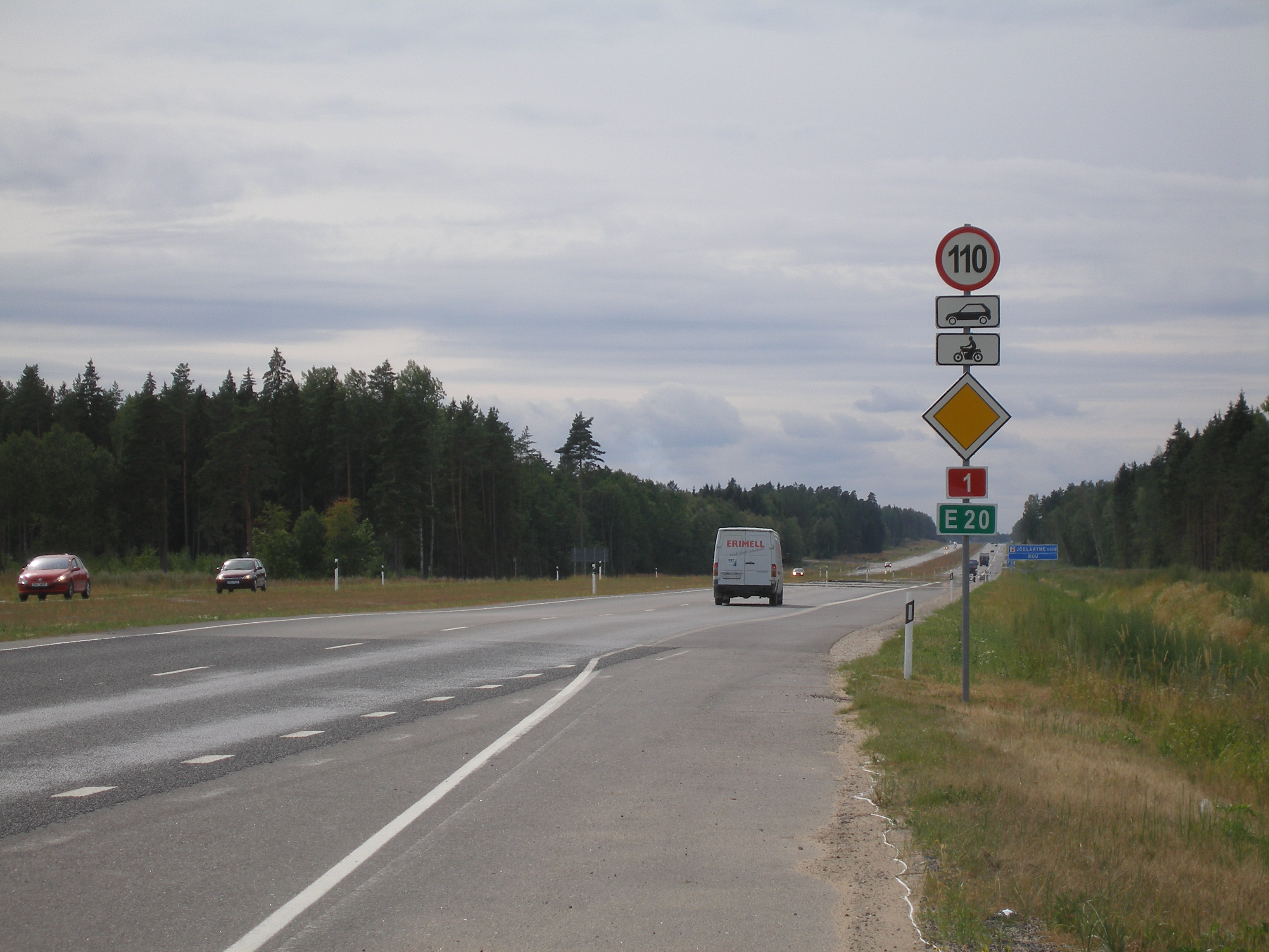 E20 (Tallinn–Narva highway) in Estonia on the border of Kuusalu and Jõelähtme Parishes, 31 km from the center of Tallinn.